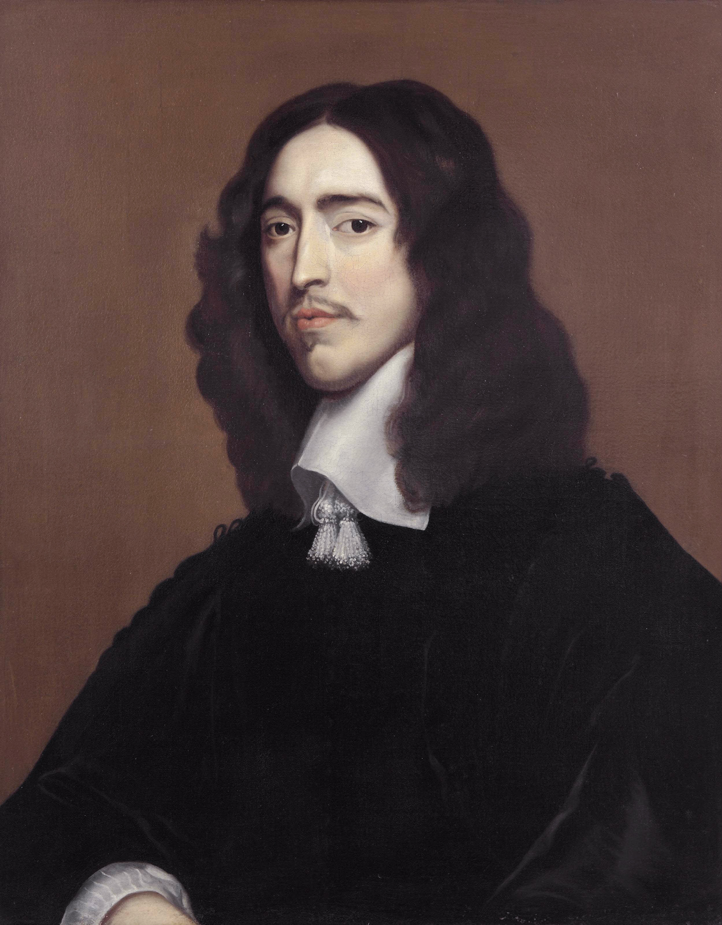 Johan de Witt (1625-1672), Grand Pensionary of Holland